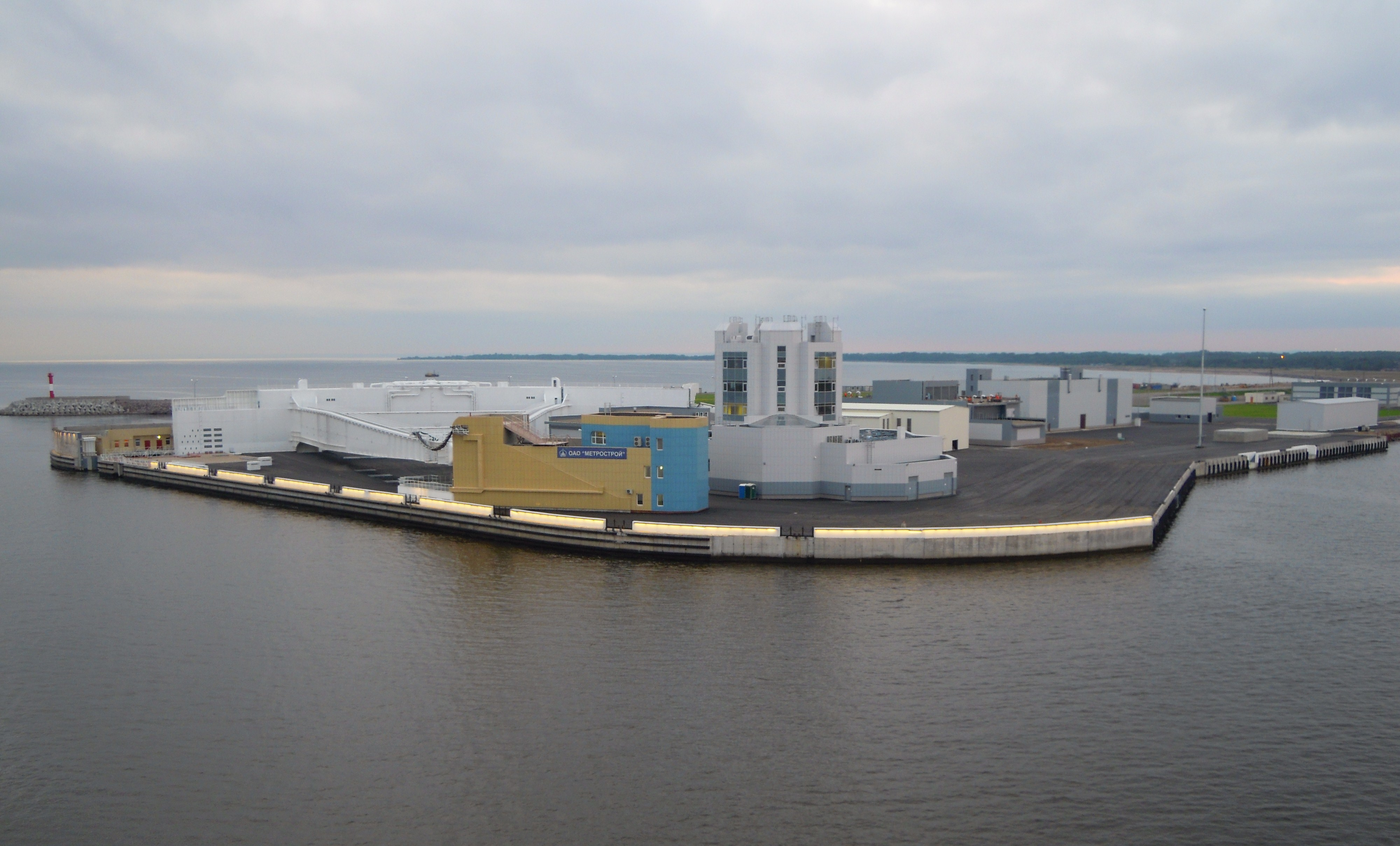 One of the Gates of the Saint Petersburg Dam on the southside of Kotlin Islajd